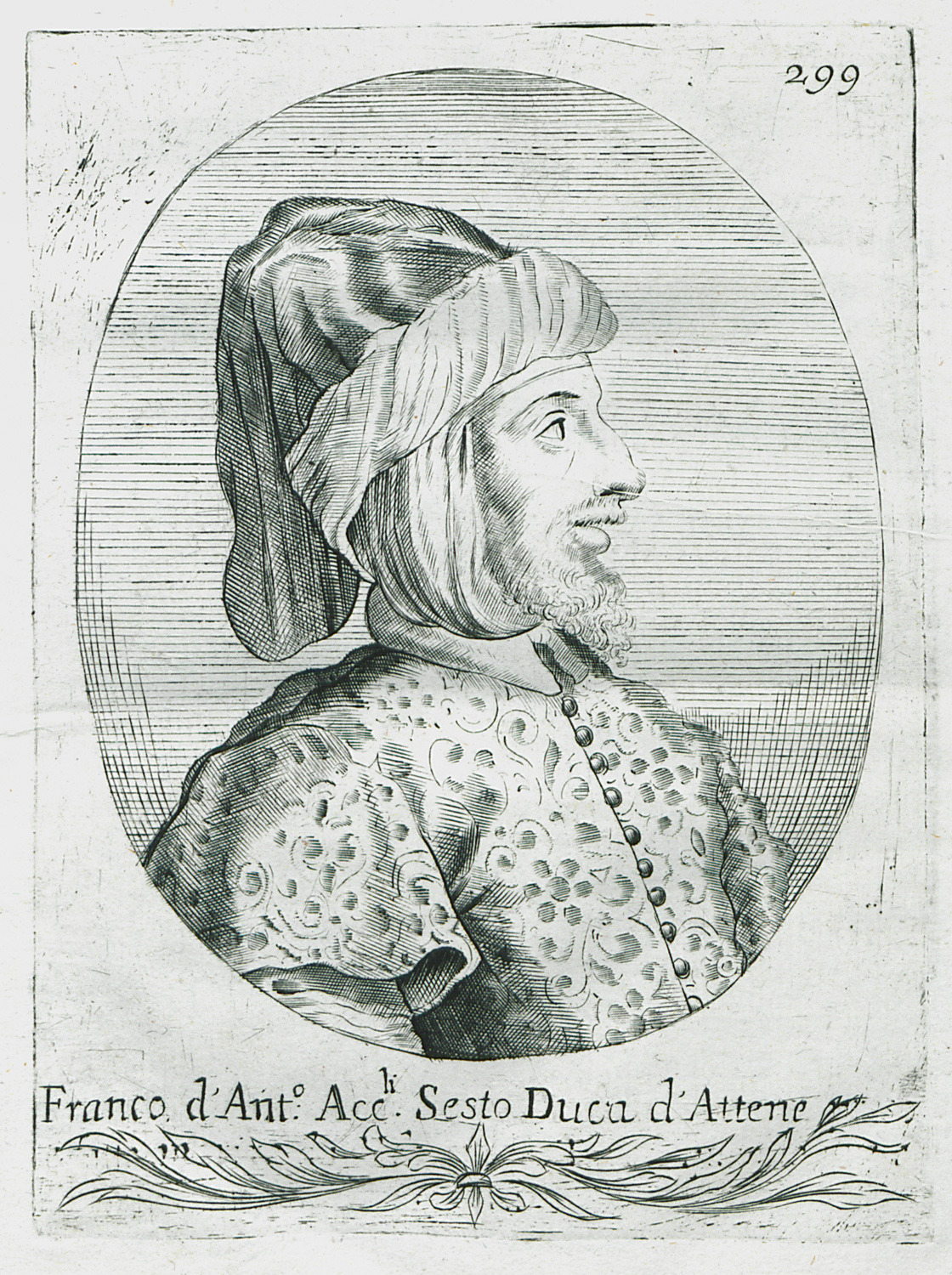 Illustration from Atene Attica Descritta da suoi Principii sino all’acquisto fatto dall’Armi Venete nel 1687…, Venice, Antonio Bortoli, 1695 edition, by Francesco Fanelli